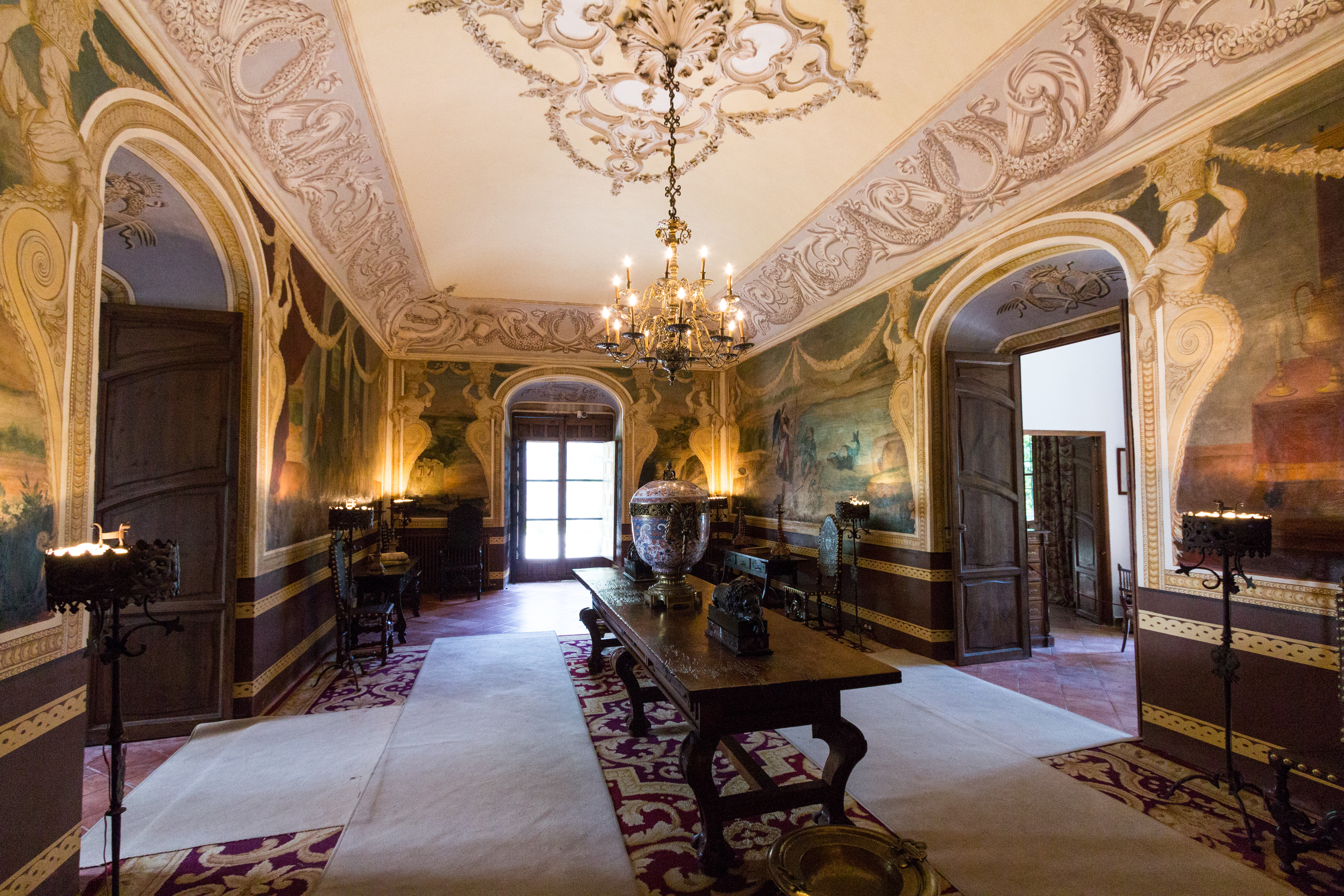 Córdoba, Spain.